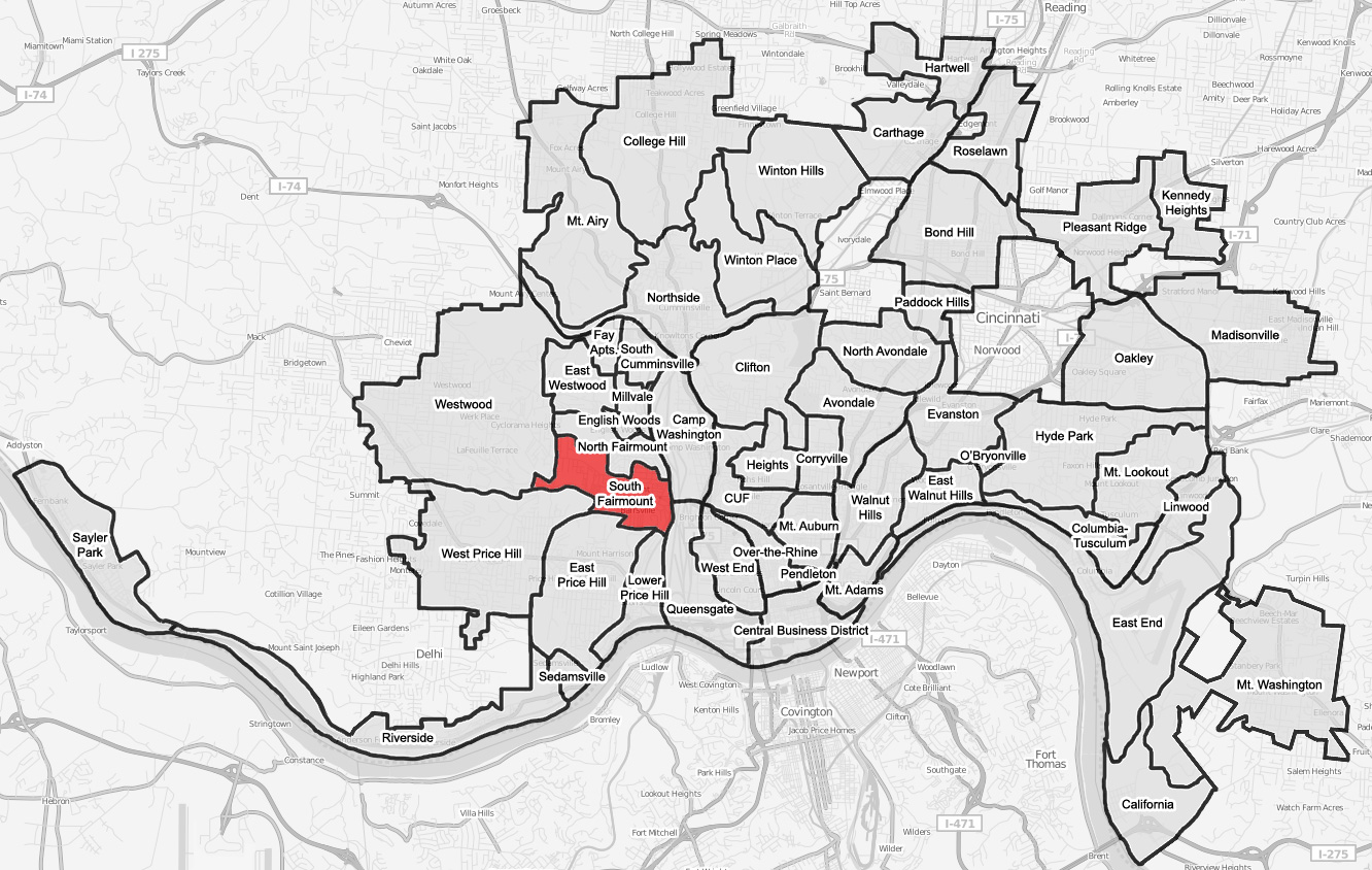 A map of the neighborhood of South Fairmount within Cincinnati, Ohio. Neighborhood lines are based on information from This street map is derived from a free map.